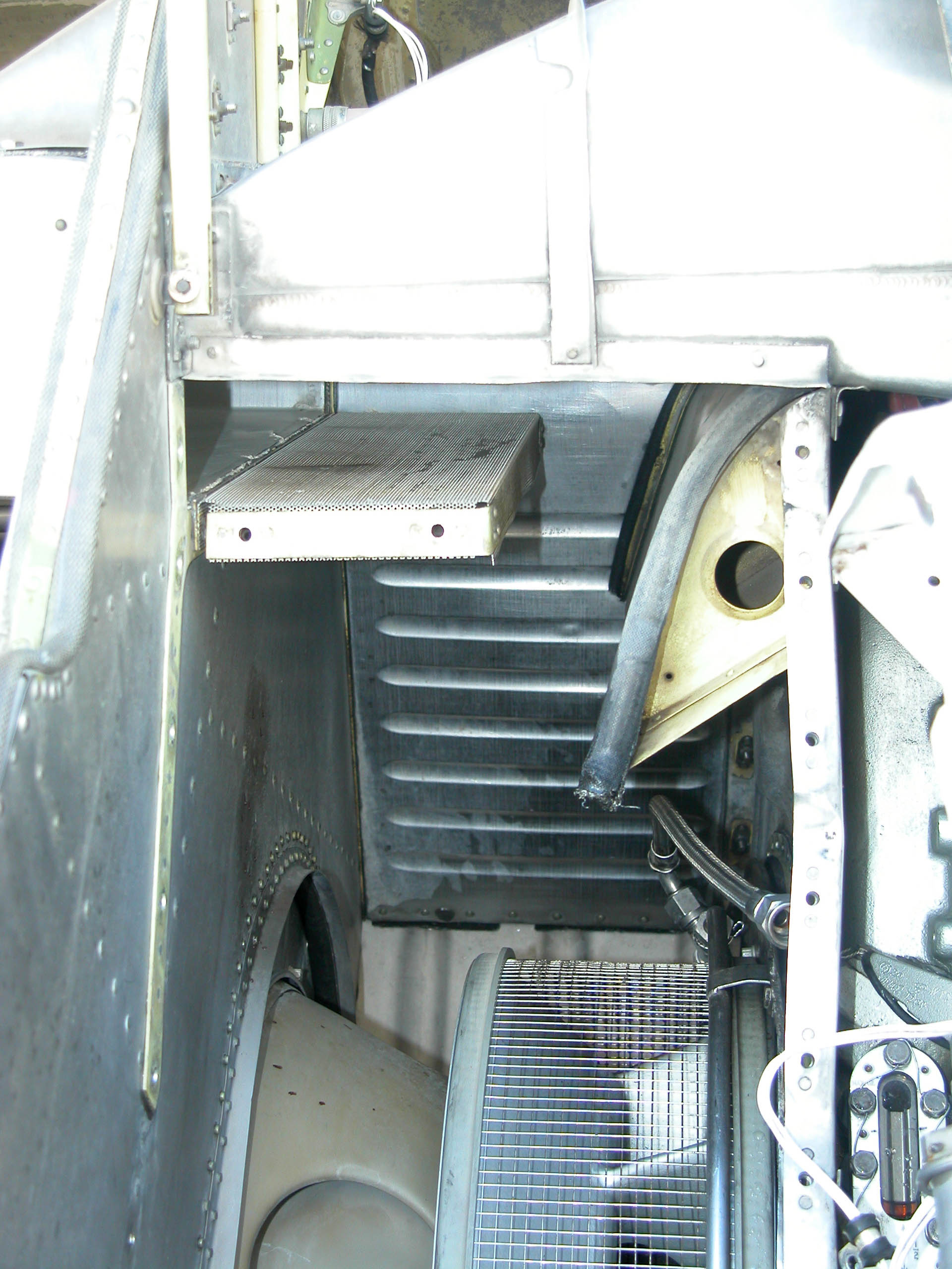 FOD deflection system on a Pratt & Whitney Canada PT6T engine installed in a Bell 412.